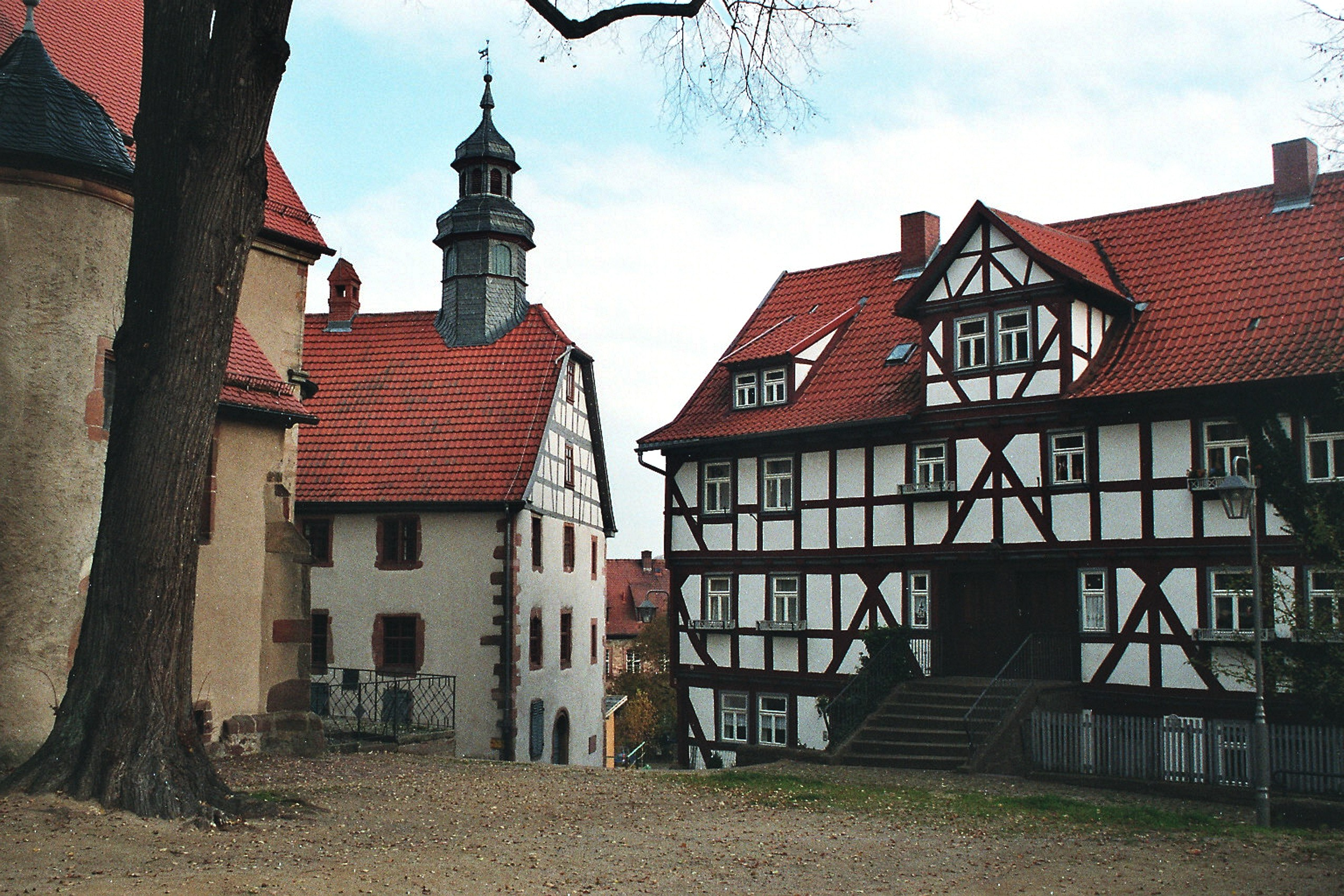 Schlitz, the town hall and the half-timbered house 5 An der Kirche